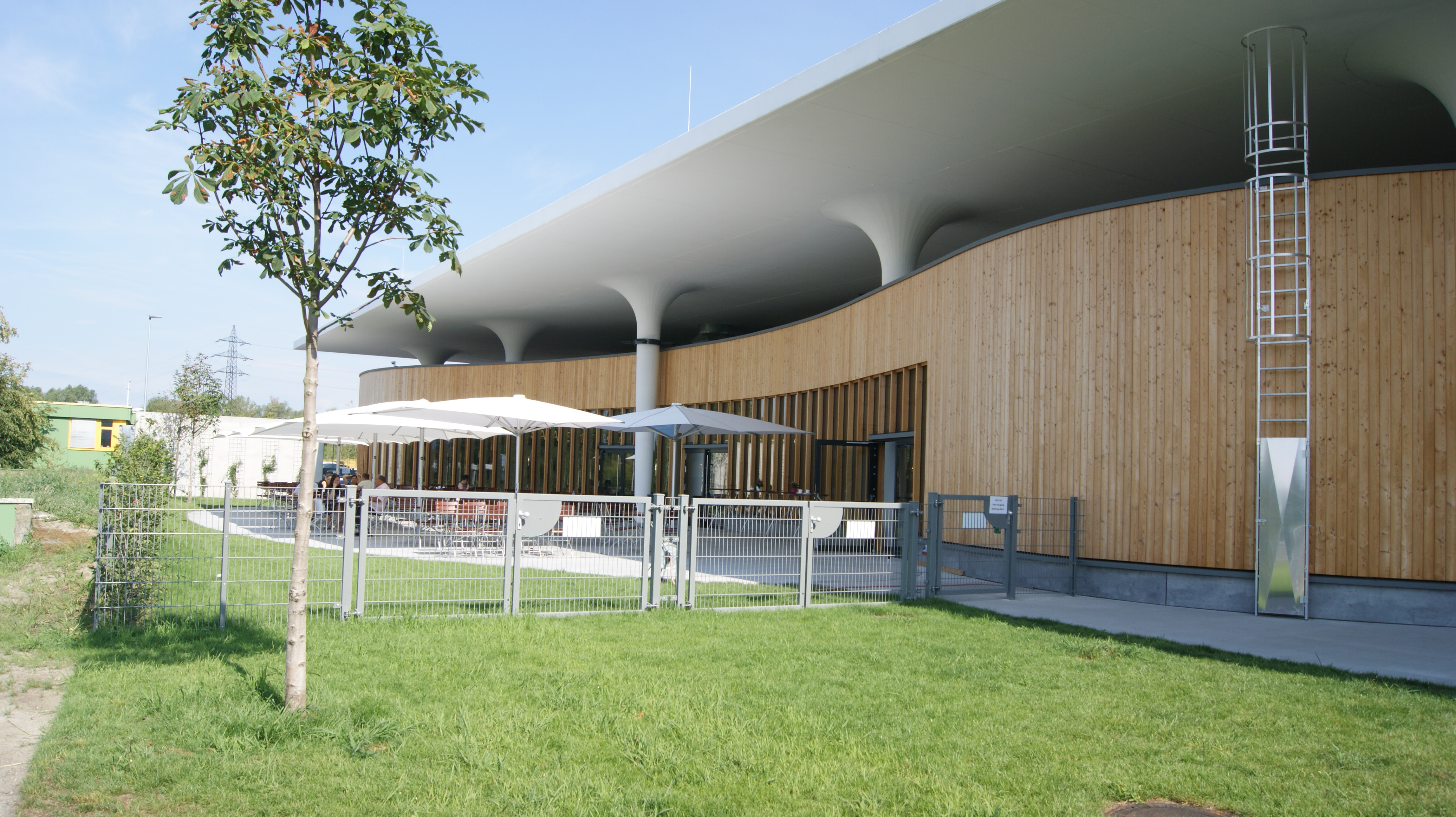 Rest area "Bodensee" ("Lake Constance") in the community Hörbranz in Vorarlberg, Austria.